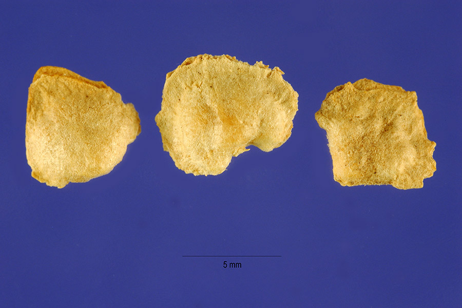 seeds of Atriplex nummularia from Steve Hurst. Provided by ARS Systematic Botany and Mycology Laboratory. Australia